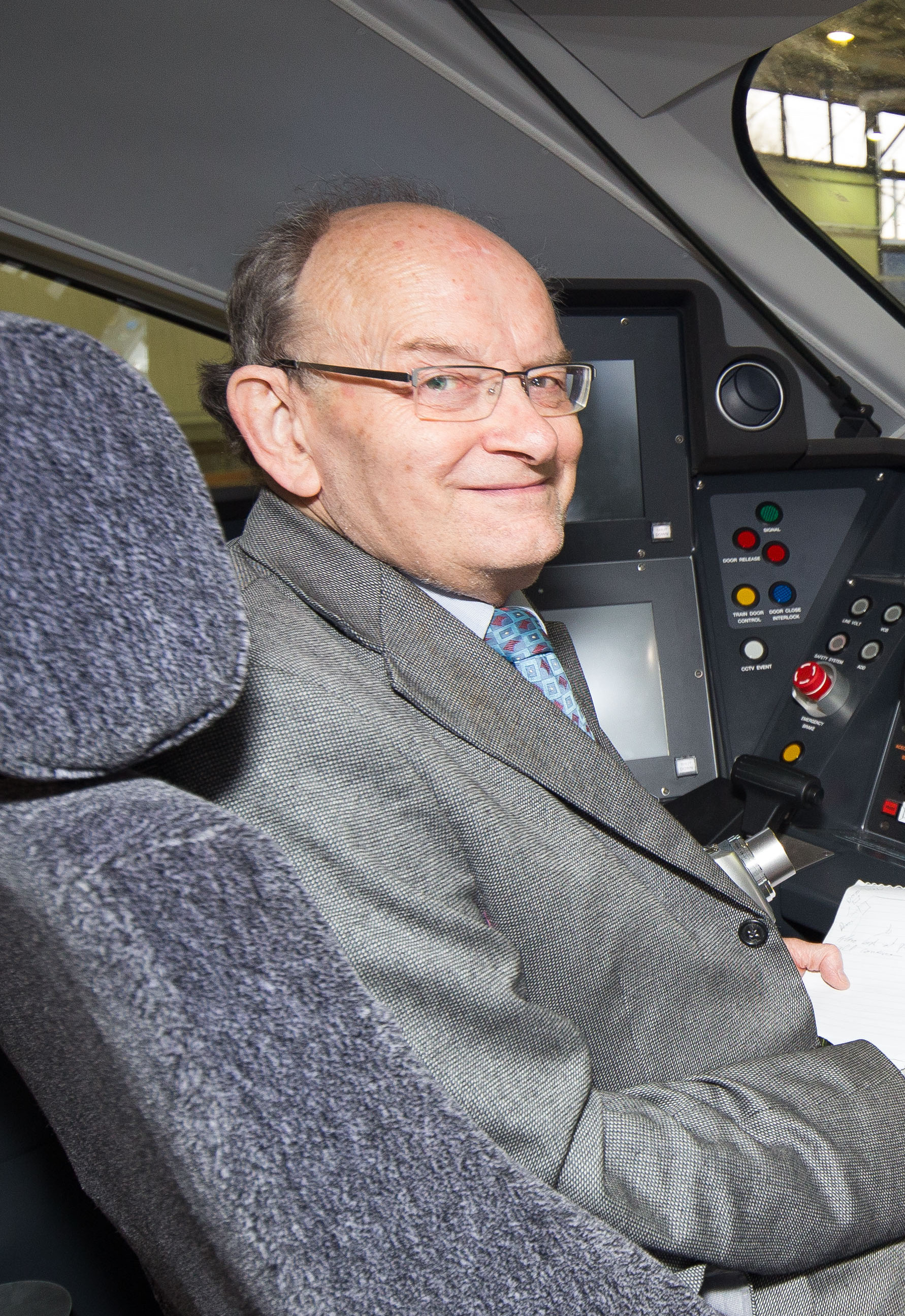 Roger Ford, Modern Railways, in the cab of Train 800002 on December 2 at North Pole Train Maintenance Centre.